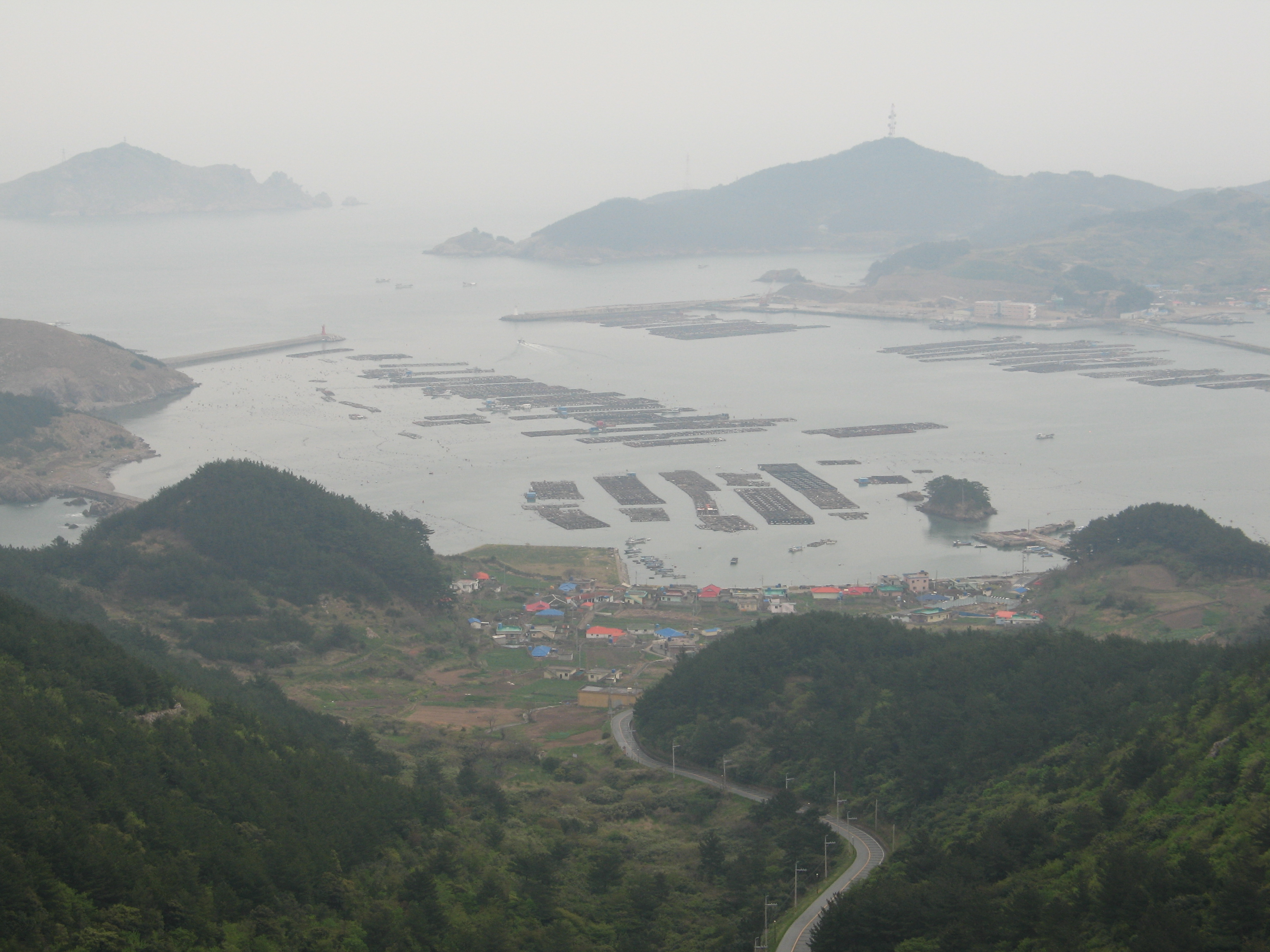 Heuksando Island, South Korea